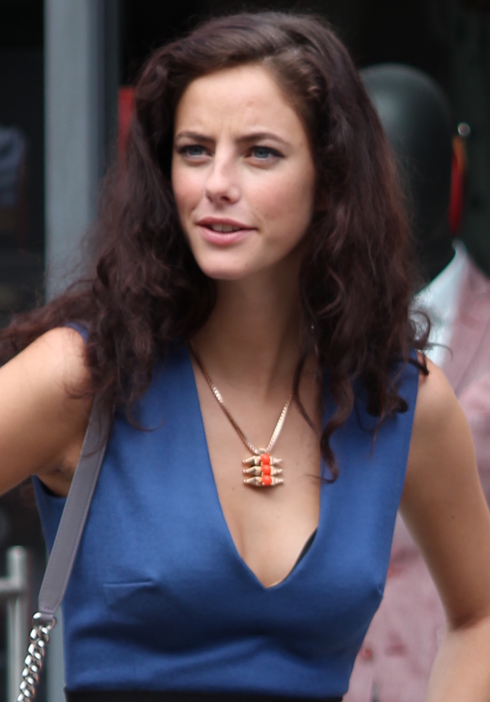 Kaya Scodelario at the Robbie Williams filming his new music video "Candy" at Old Spitalfields Market, (August 2012).